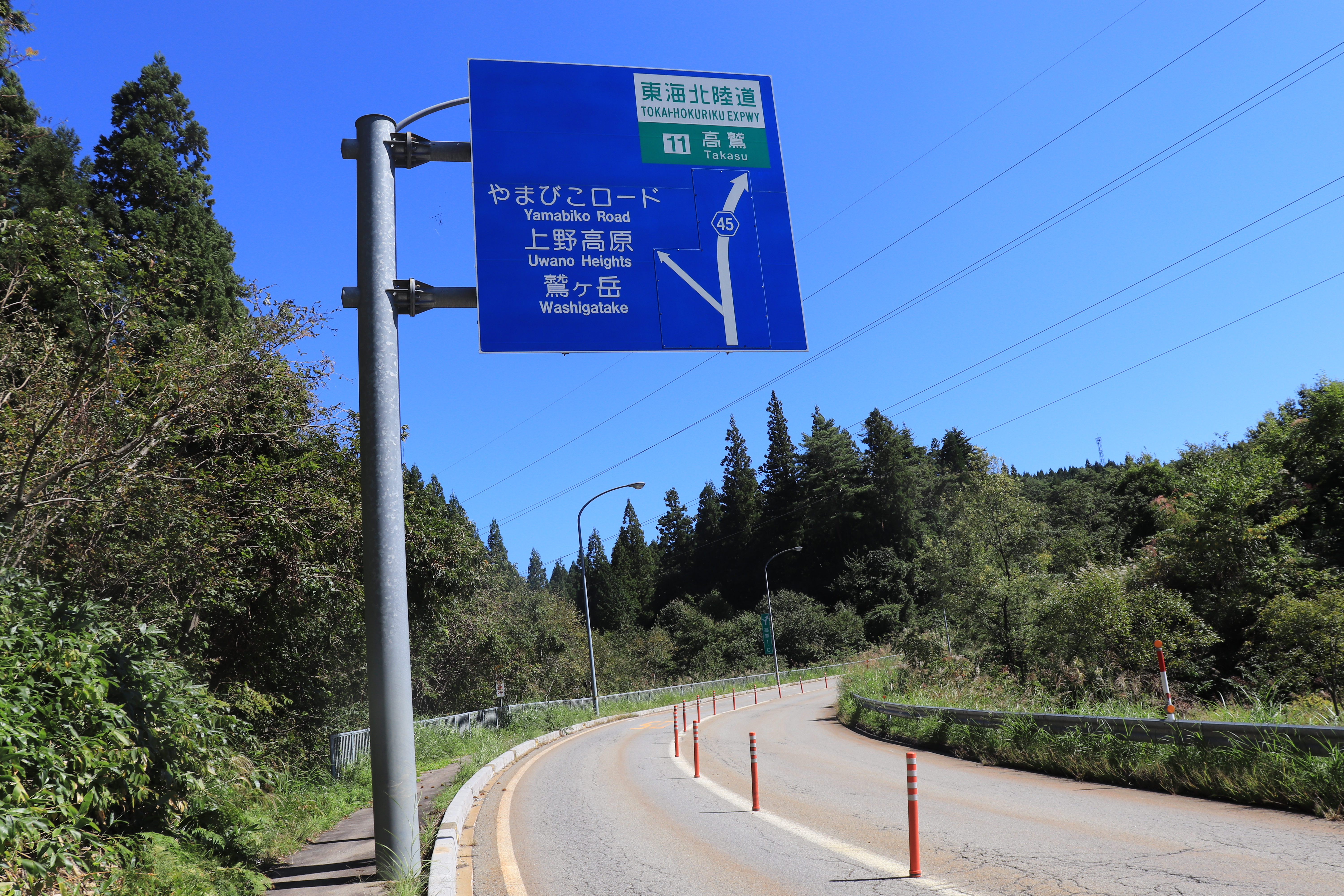 Gifu Prefectural Road Route 45 in Ōwashi, Takasuchō, Gujō, Gifu Pefecture, Japan.